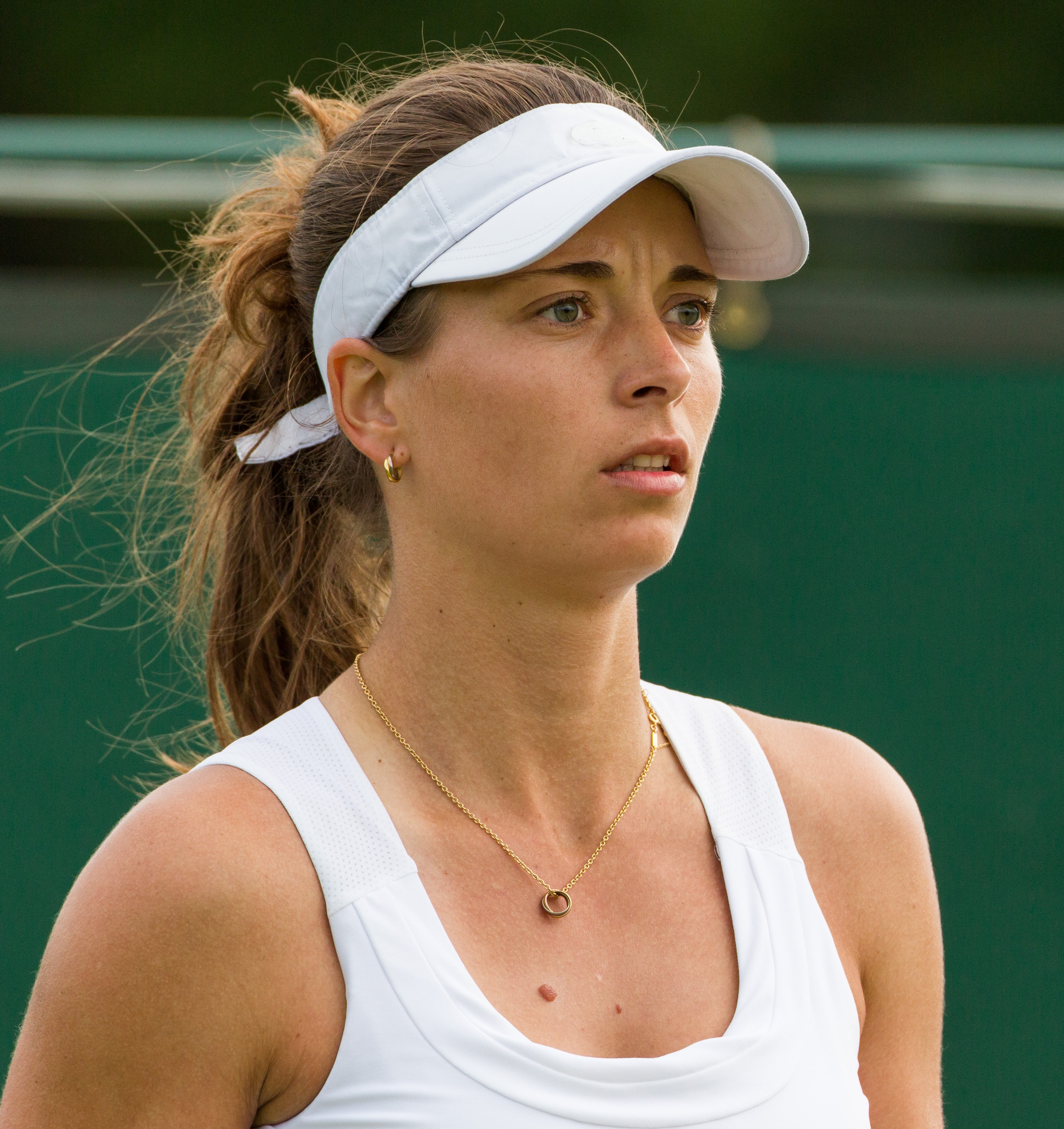 Petra Cetkovská competing in the second round of the 2015 Wimbledon Qualifying Tournament at the Bank of England Sports Grounds in Roehampton, England. The winners of three rounds of competition qualify for the main draw of Wimbledon the following week.